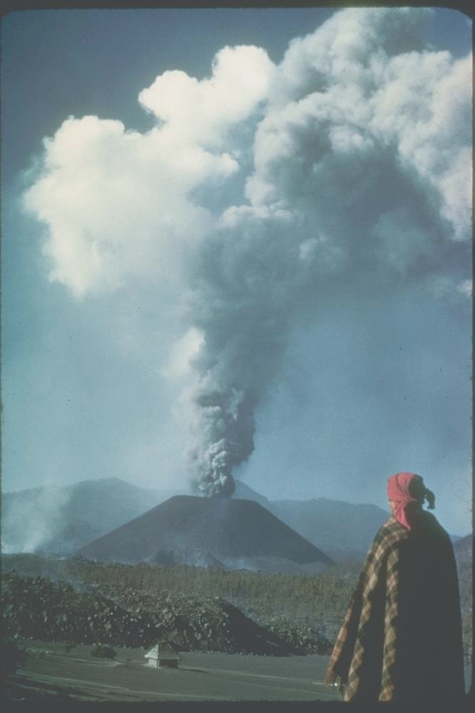 Paricutin, Mexico;19.48 N 102.25 W;3,170 m elevation This slide shows the cinder cone soon after its birth in 1943 in a Mexican cornfield. During its brief nine-year lifespan (1943-1952), it built a 410-meter-high cone with extensive lava fields around the base of the cone. Most of the 2 km3 of eruptive products (ash, cinders, and lava) were produced in the first few years. Cinder cones such as this one are commonly formed by one eruption. Each subsequent eruption in the same area forms its own cinder cone.